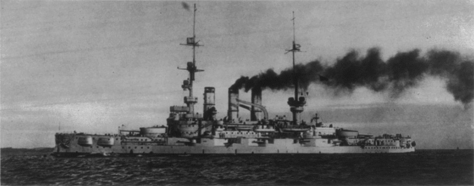 The German battleship SMS Pommern. She was commissioned in 1907 and sunk at the Battle of Jutland on 1 June 1916.